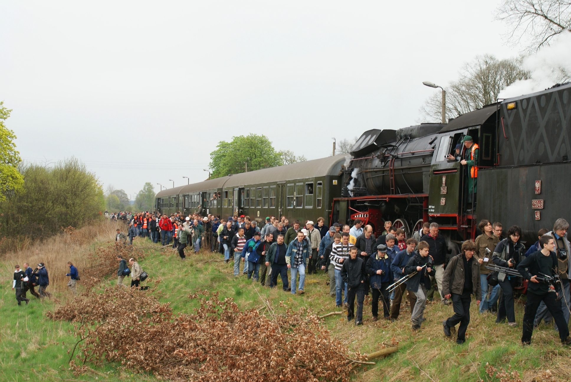 „With Steam across the Greater Poland“ – rail event: heritage rail Ol49-59 + 3xBp120A Line: Wolsztyn ⇔ Zbąszynek ⇔ Gorzów Wlkp. ⇔ Świątki Organizer: Towarzystwo Przyjaciół Wolsztyńskiej Parowozowni